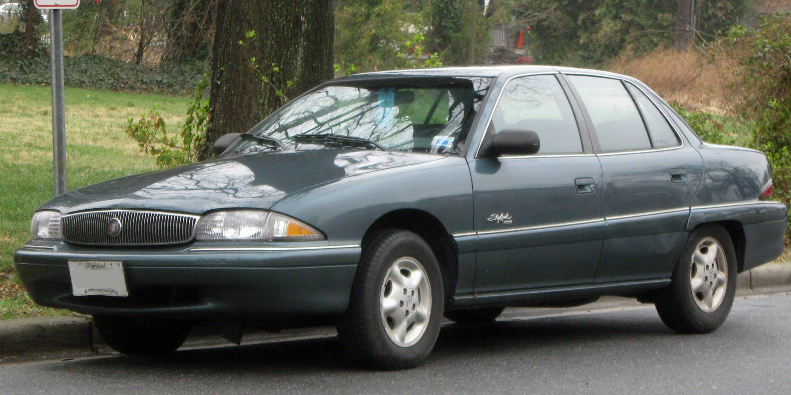 1996-1998 Buick Skylark photographed in College Park, Maryland, USA.